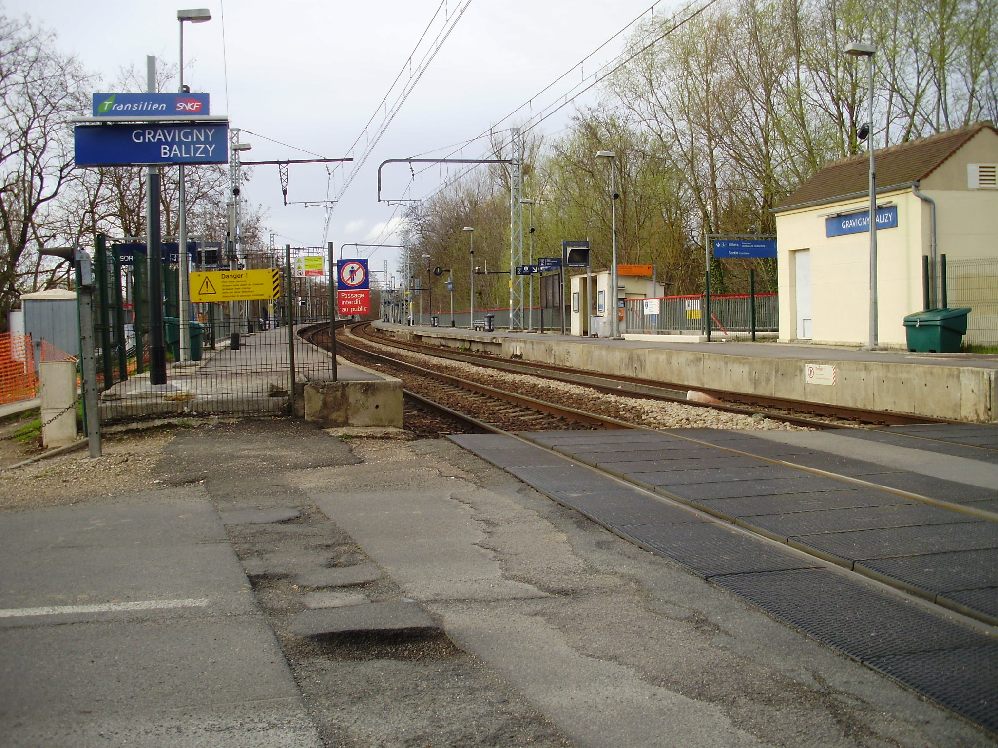 Plateform of Gravigny - Balizy station, Essonne, France